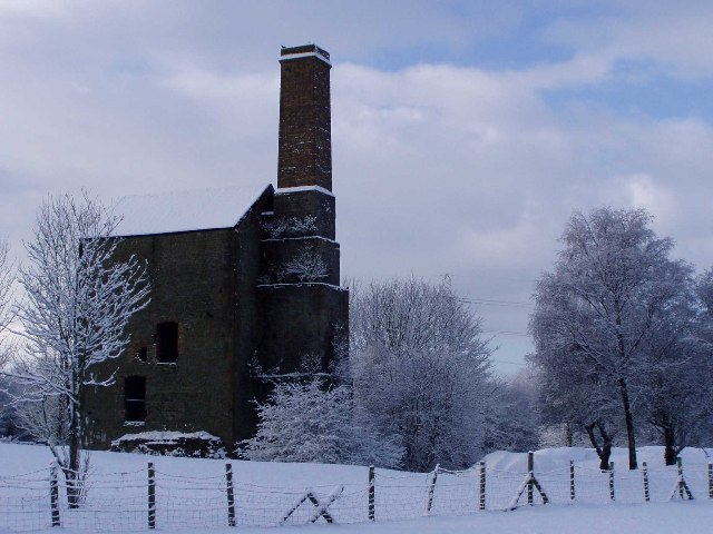 Scott's Pit, Birchgrove, Swansea.